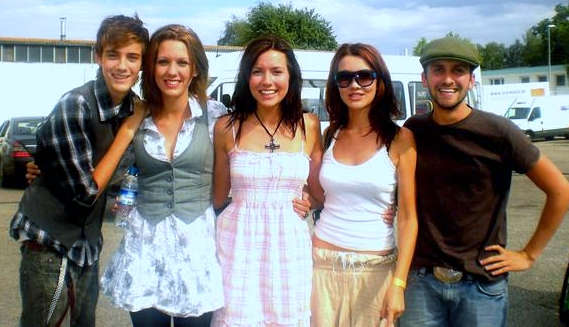 German band King Family at a concert in Hannover, Germany in 2008